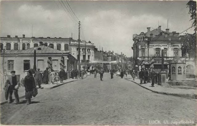 Bratskiy bridge in Lutsk.